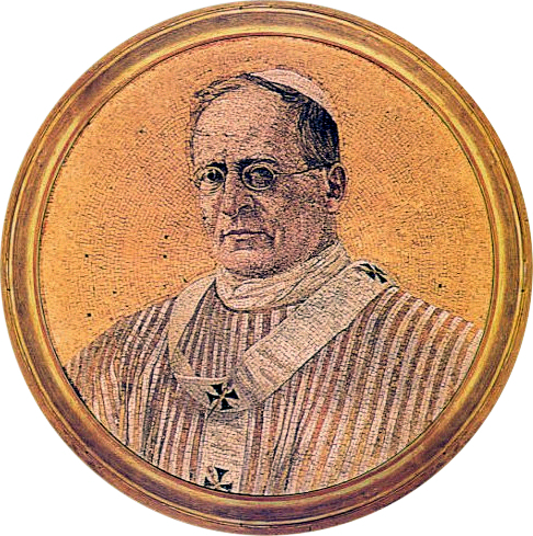 Portrait of Pope Pius XI